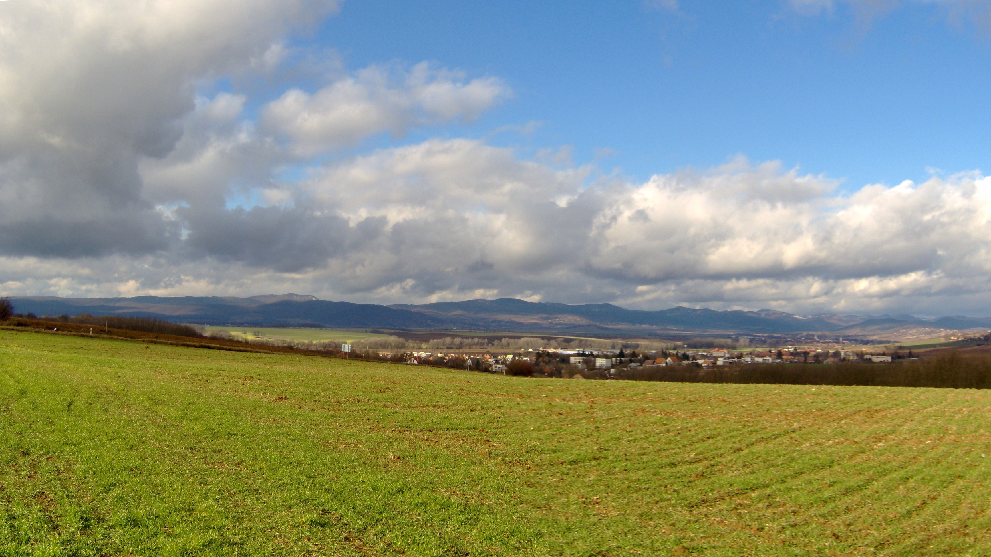 Žemberovce